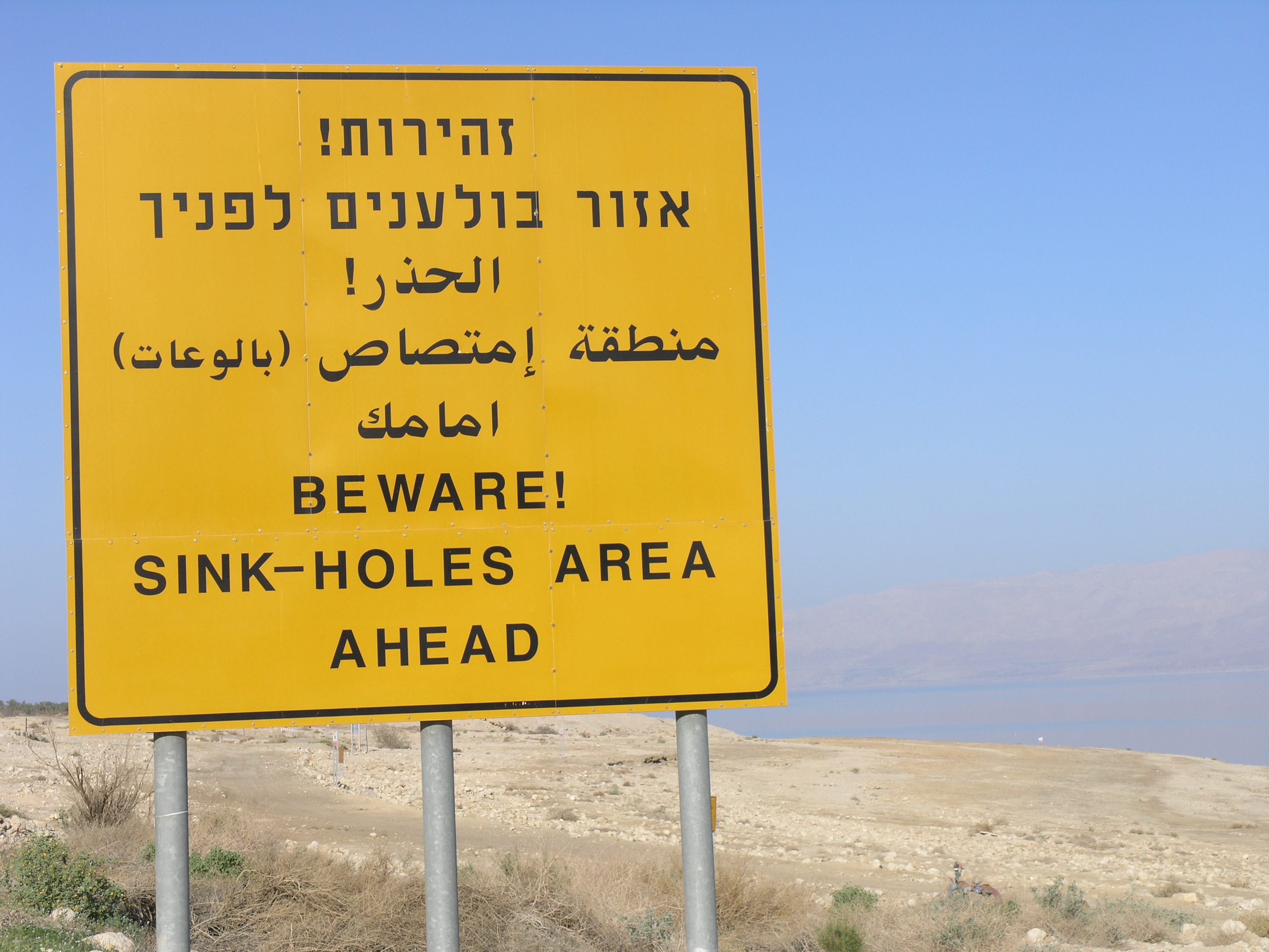 Sinkholes in Dead Sea - Warning